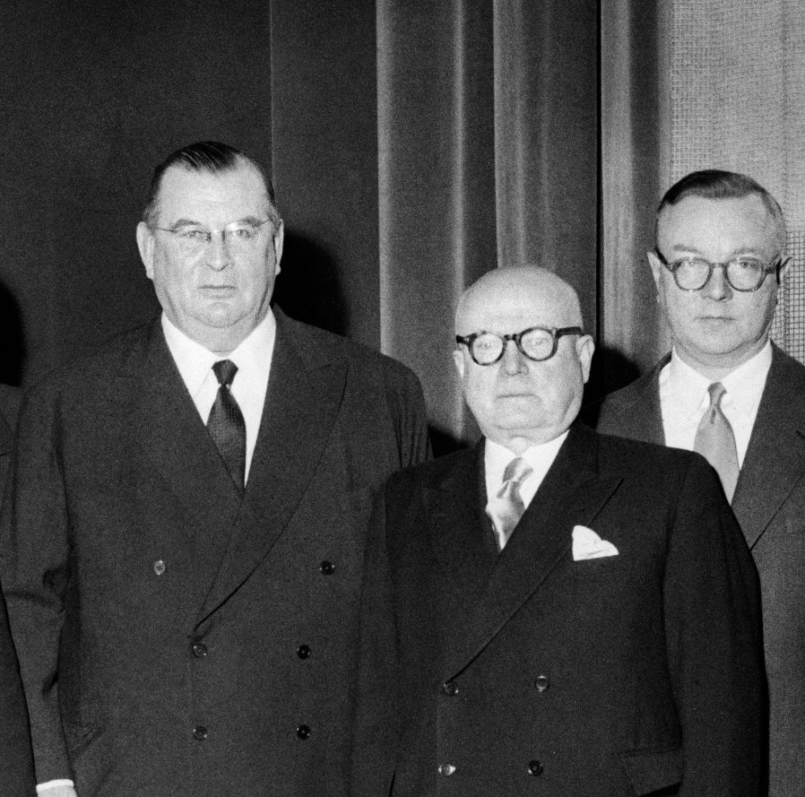 Photograph of the Finnish publisher Eljas Erkko, news agency director Eero A. Berg and manager Visa Kivi at a dinner organized in honour of Berg.